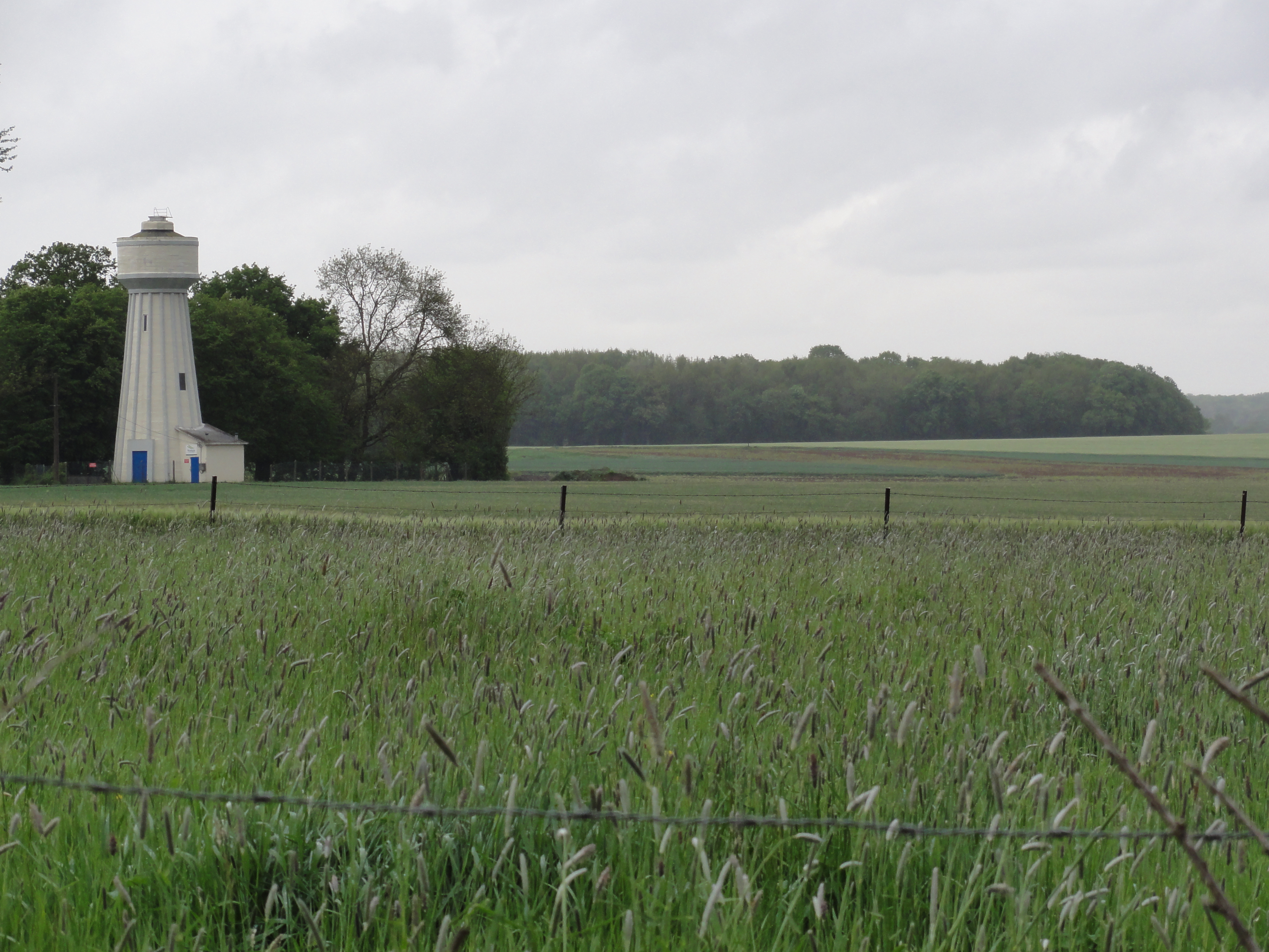 Remigny (Aisne) paysage avec château d'eau